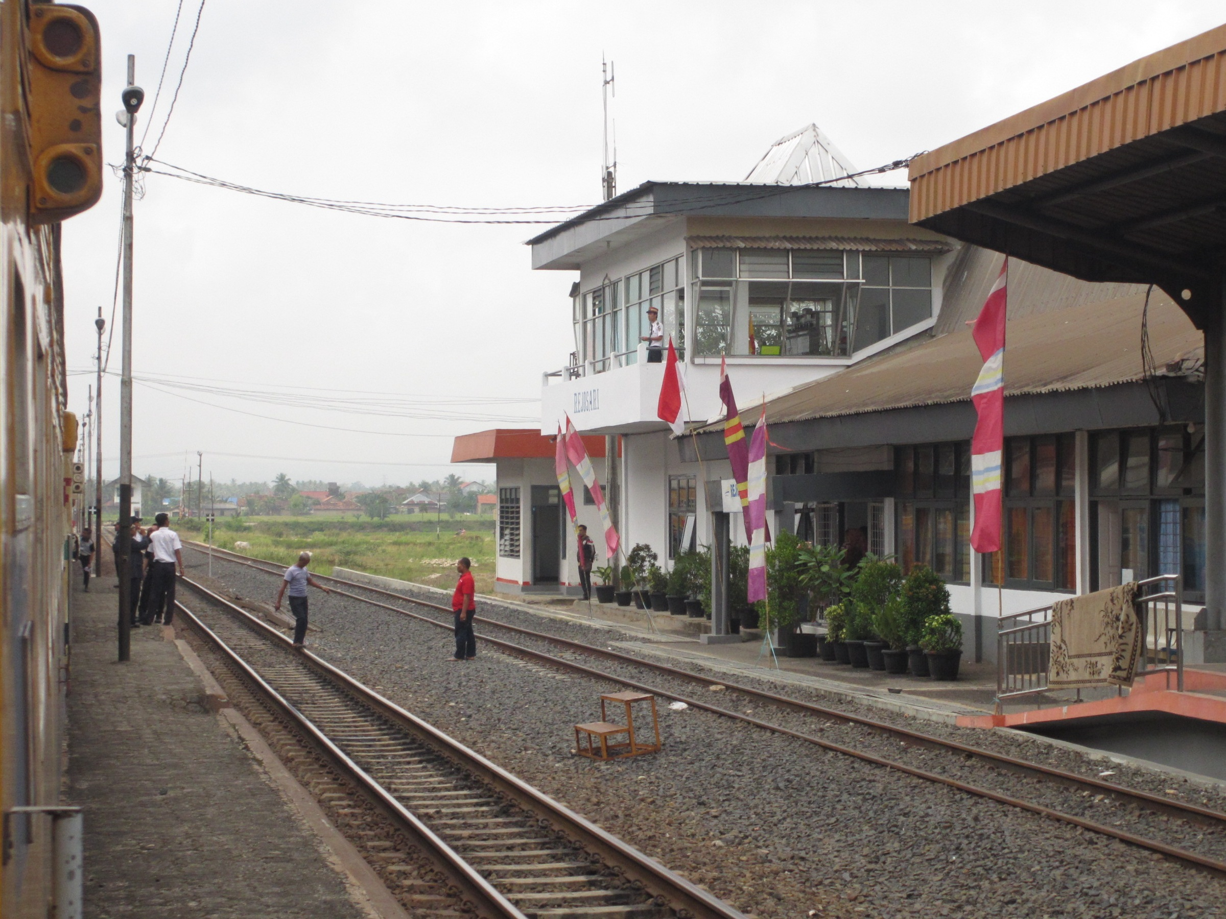 Rejosari Railway Station.